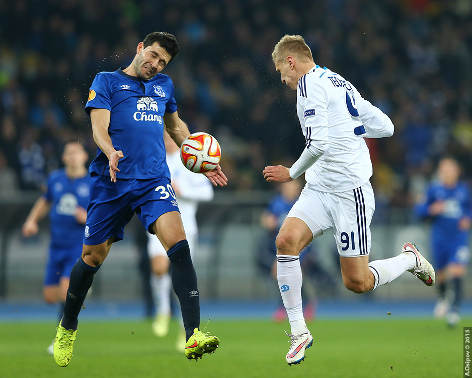 UEFA Europa League 2014-15 1/8 Final NSK Olimpiyskyi - Kyiv 19/03/2015 - 19:00CET (20:00 local time) Round of 16, Second leg Dynamo Kyiv - Everton - 5:2 Goals: Yarmolenko 21 Lukaku 29 Teodorczyk 35 Miguel Veloso 37 Gusev 56 Antunes 76 Jagielka 82 Aggregate: 6-4